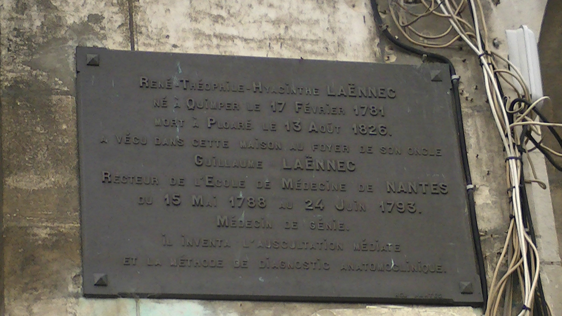 Plaque commemorating René-Théophile-Hyacinthe Laënnec, who lived in a house at Place du Bouffay, Nantes, as a child.